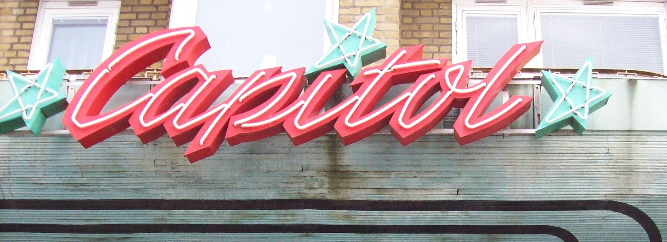 Bio Capitol (Göteborg), detail of the signage.